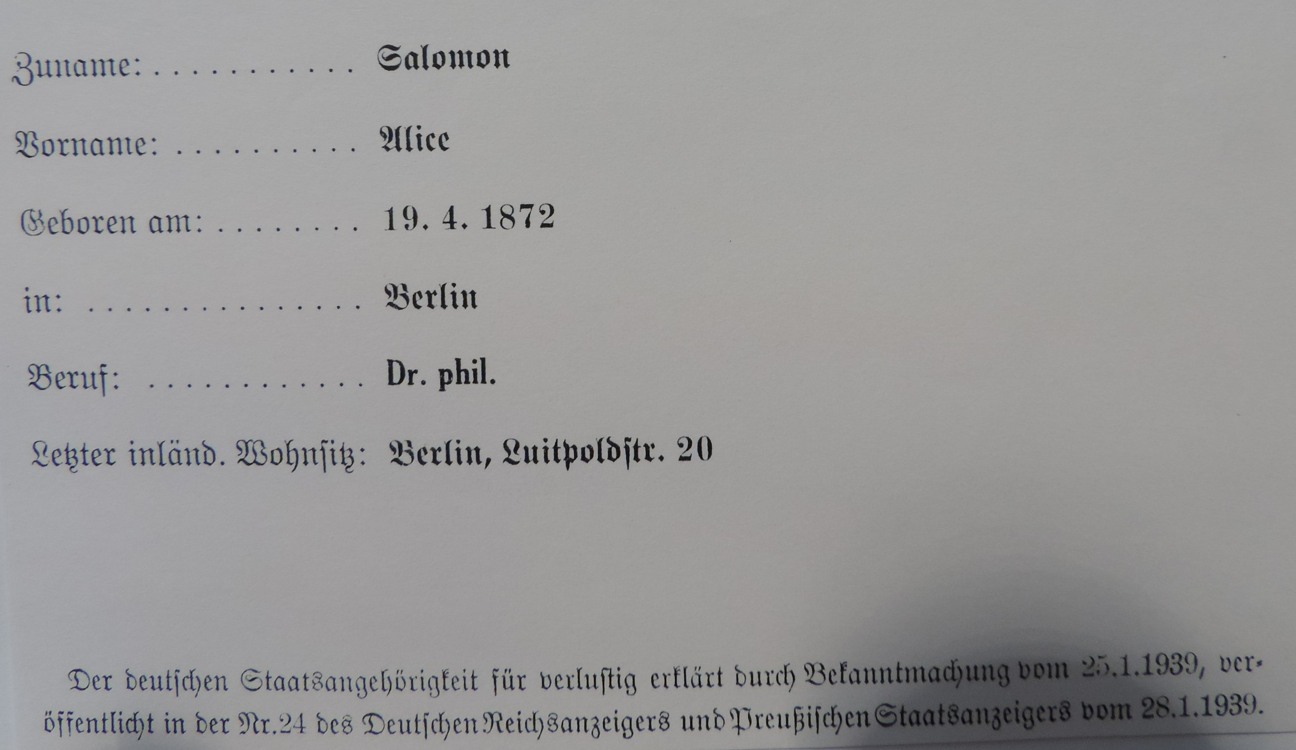 Alice Salomon's document of her deprivation of german citizenship, archived in “Ida-Seele-Archiv”